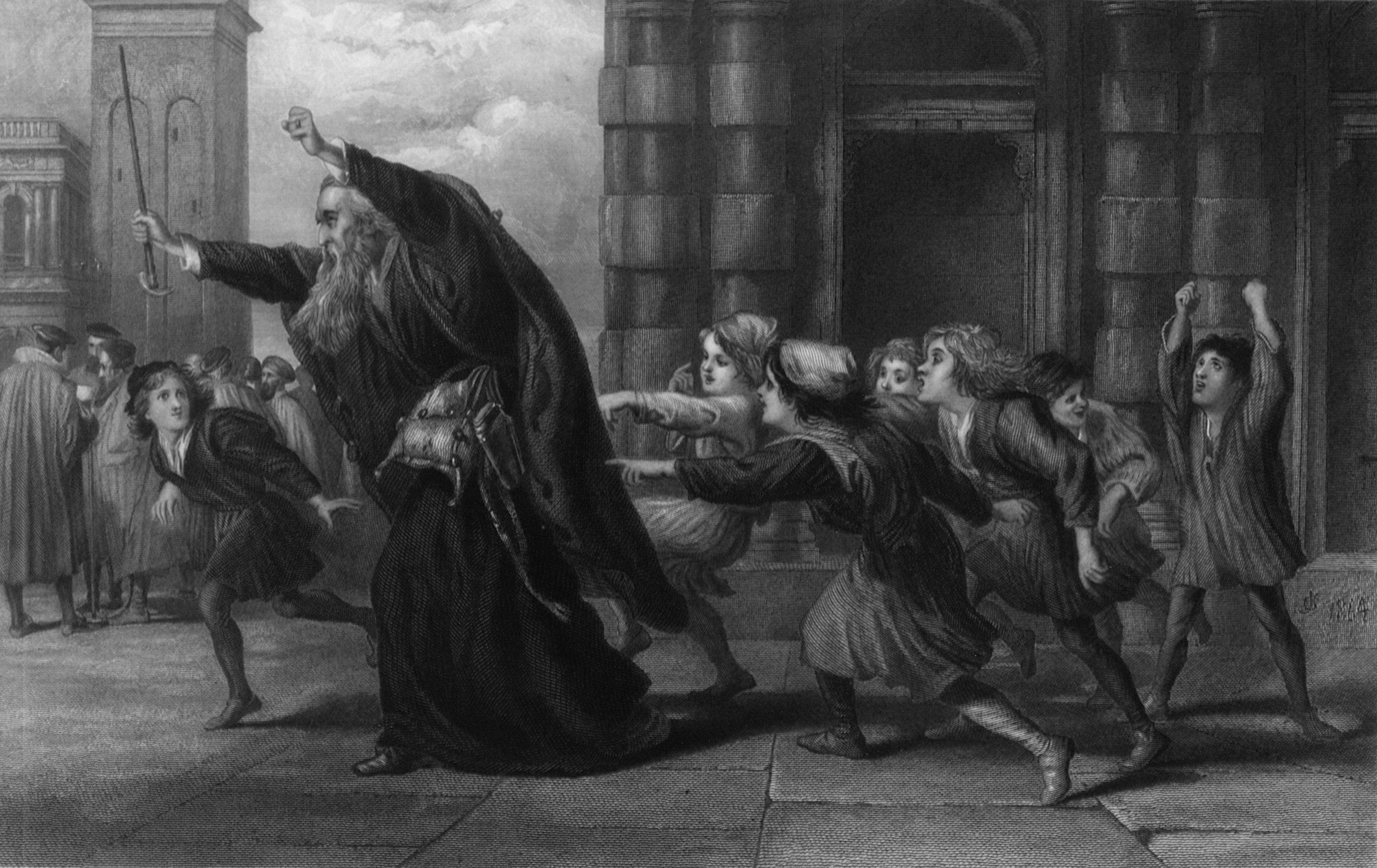 Shylock After the Trial, describing Act II, Scene vii of William Shakespeare's play The Merchant of Venice which is not after the trail (steel engraving)